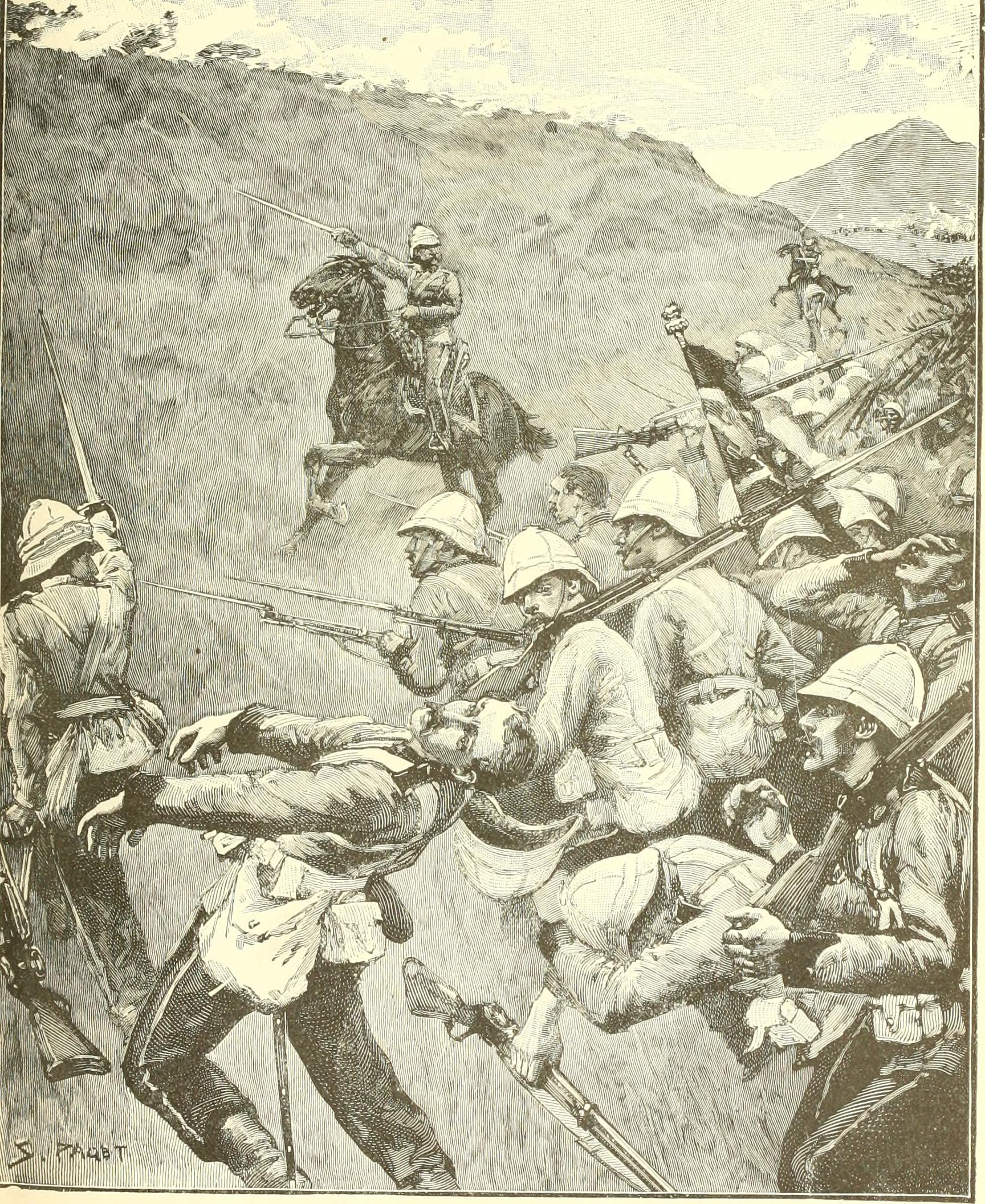 Title: From 1800 to 1900. The wonderful story of the century; its progress and achievements .. Year: 1899 (1890s) Authors: Morris, Charles, 1833-1922 Subjects: Nineteenth century Publisher: Chicago, Ill., A.B. Kuhlman Company Text Appearing Before Image: ers was 283; the Boers had one man killedand five wounded. Majuba Hill was enough for the British, fighting asthey were in an unjust cause. An armistice was agreed upon, followed bya treaty of peace on March 23d. Large reinforcements had been sent out,which would have given tin- British an army of 20,000 against the 8,000Peace Declared Boers capable of bearing arms; but to light longer in defencewith British of an arbitrary invasion aeainst such brave defenders of theirhomes and their rights, did not appeal to the conscience ofMr. Gladstone, and he lost no time in bringing the war to an end. By theterms of the treaty the Boers were left free to govern themselves as theywould, they acknowledging the queen as suzerain of their country, withcontrol of its foreign relations. The next important event in the history of the Transvaal was the ex-ploitation of its gold mines. Gold was discovered there soon after the open-1 1 the diamond mines, but not under very promising conditions. It exists Text Appearing After Image: THE BATTLE OF MAJUBA HILL, BETWEEN THE ENGLISH AND BOERS, SOUTH AFRICA The greatest disaster ever experienced by the British in Africa was at Majuba Hill, in the South African Republic. In the war of 1880-81 with the Boers, a British force occupied the flat top of this steep elevation, but was driven out with great slaughter The attempt to recapture the hill in the face of the skilled Boer marksmen was simply a climb to death, and *he day ended in a serious defeat for the invaders.